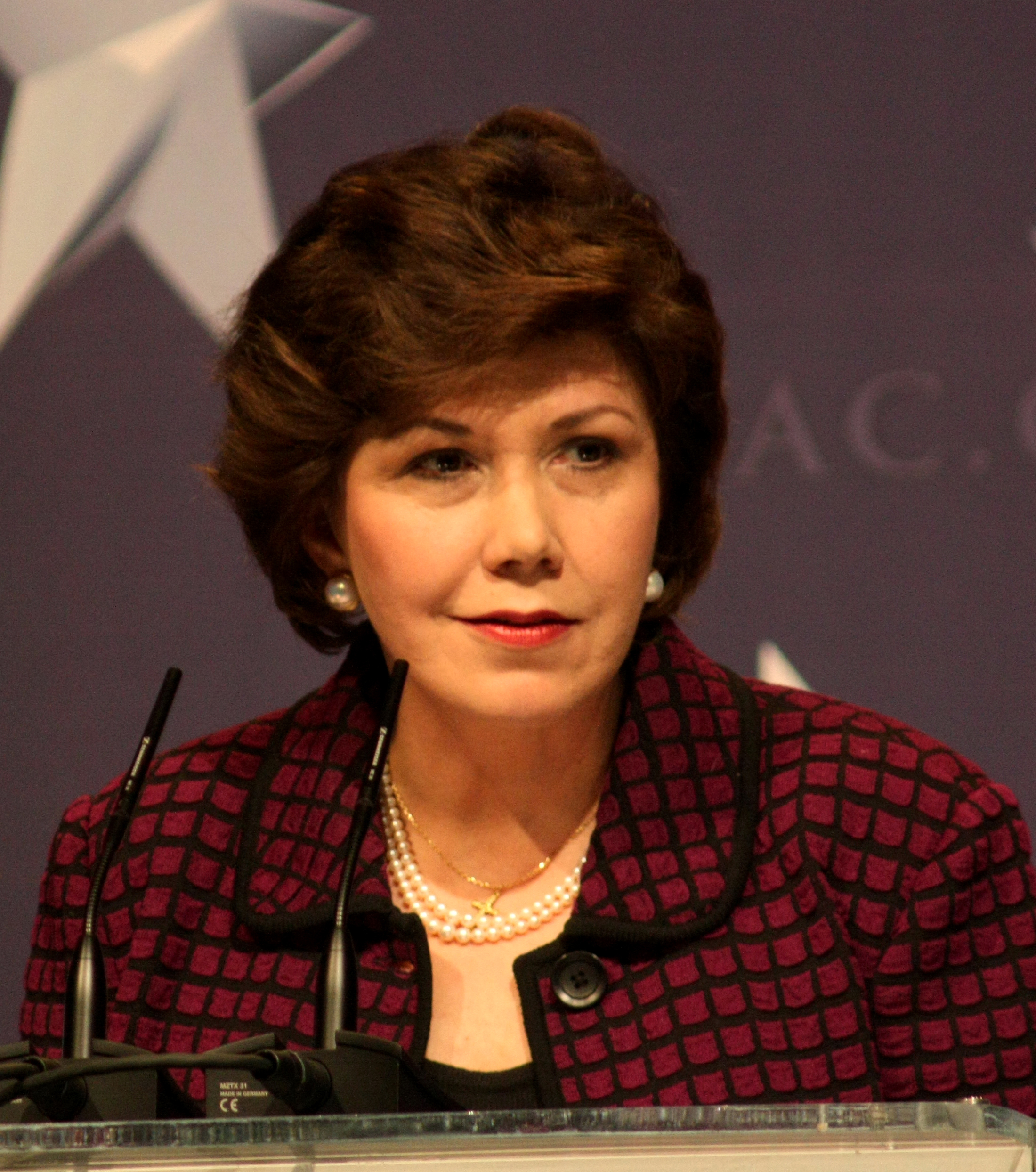 Linda Chavez at CPAC in Washington, D.C..